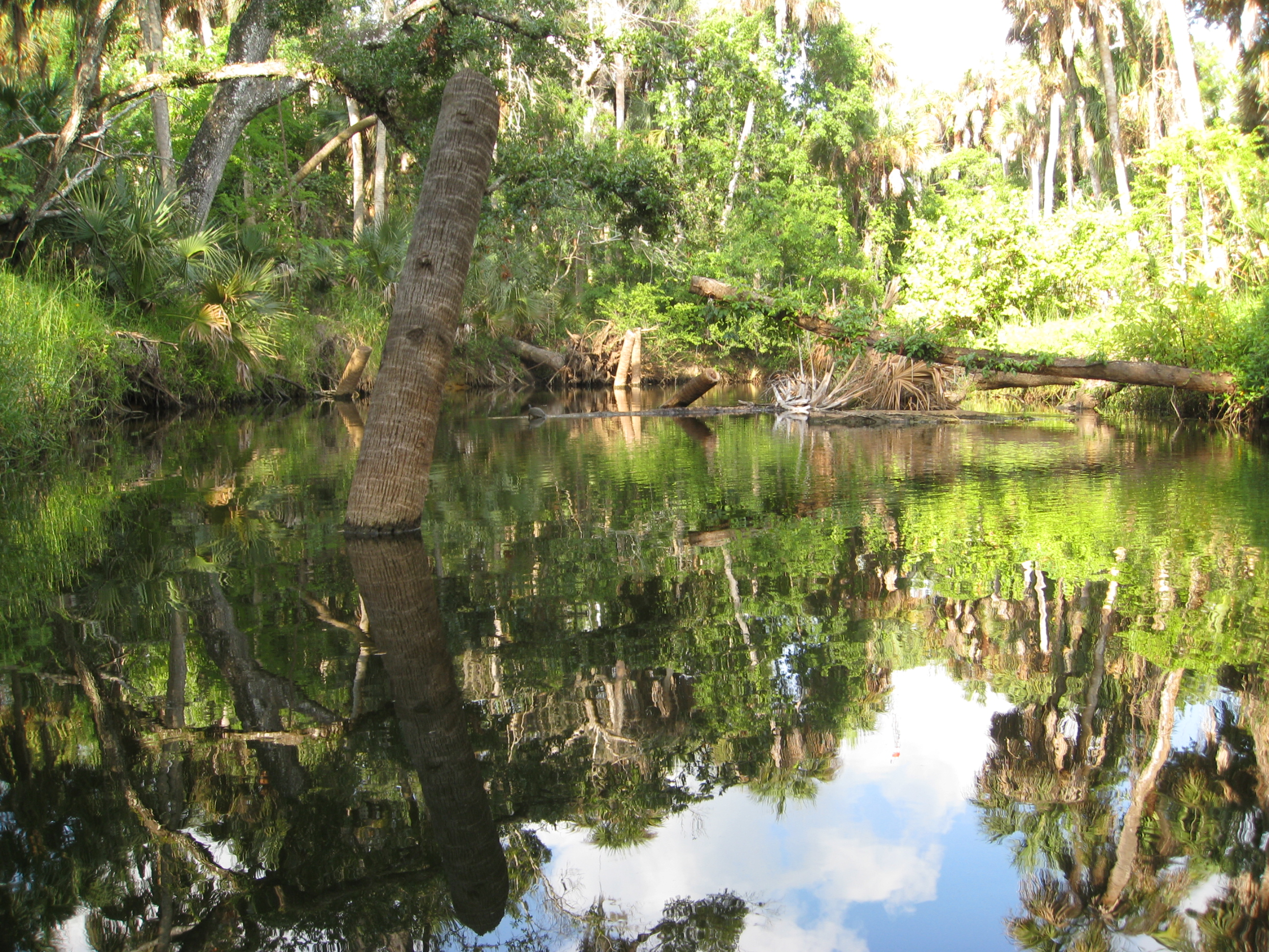 View of Turkey Creek in Palm Bay Florida. Image taken in Turkey Creek Sanctuary area.